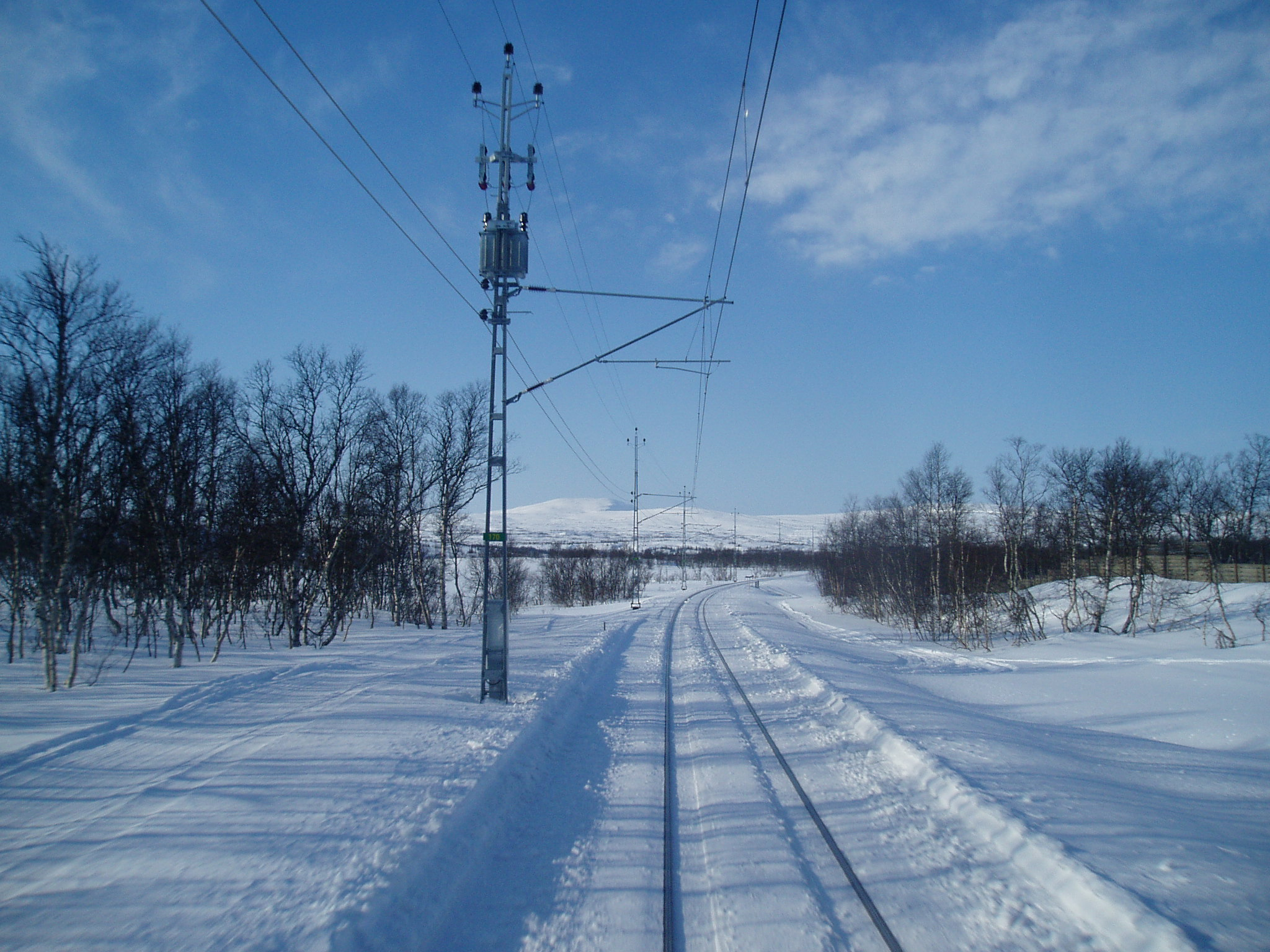 Mittbanan railway near Storlien